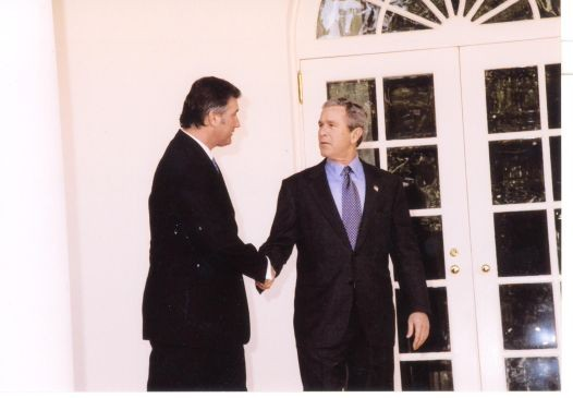 January 10, 2005 -- Congressman Renzi visits with President Bush to discuss veterans' issues